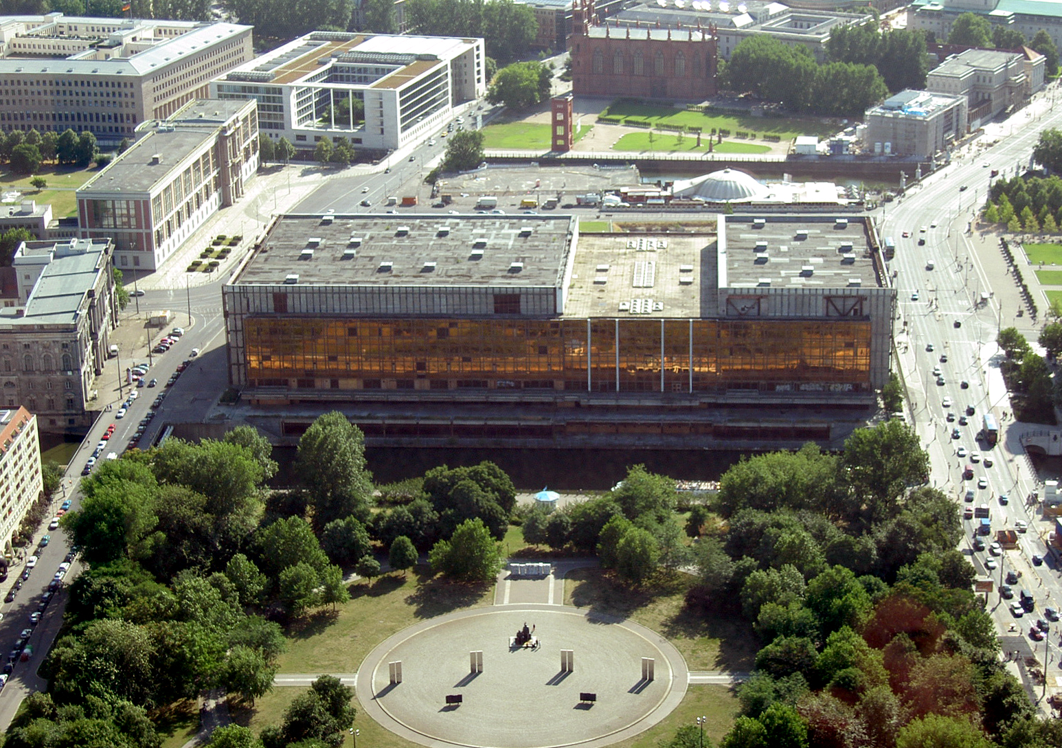 The "Palast der Republik" ("republic's palace) in Berlin seen from the TV-Tower